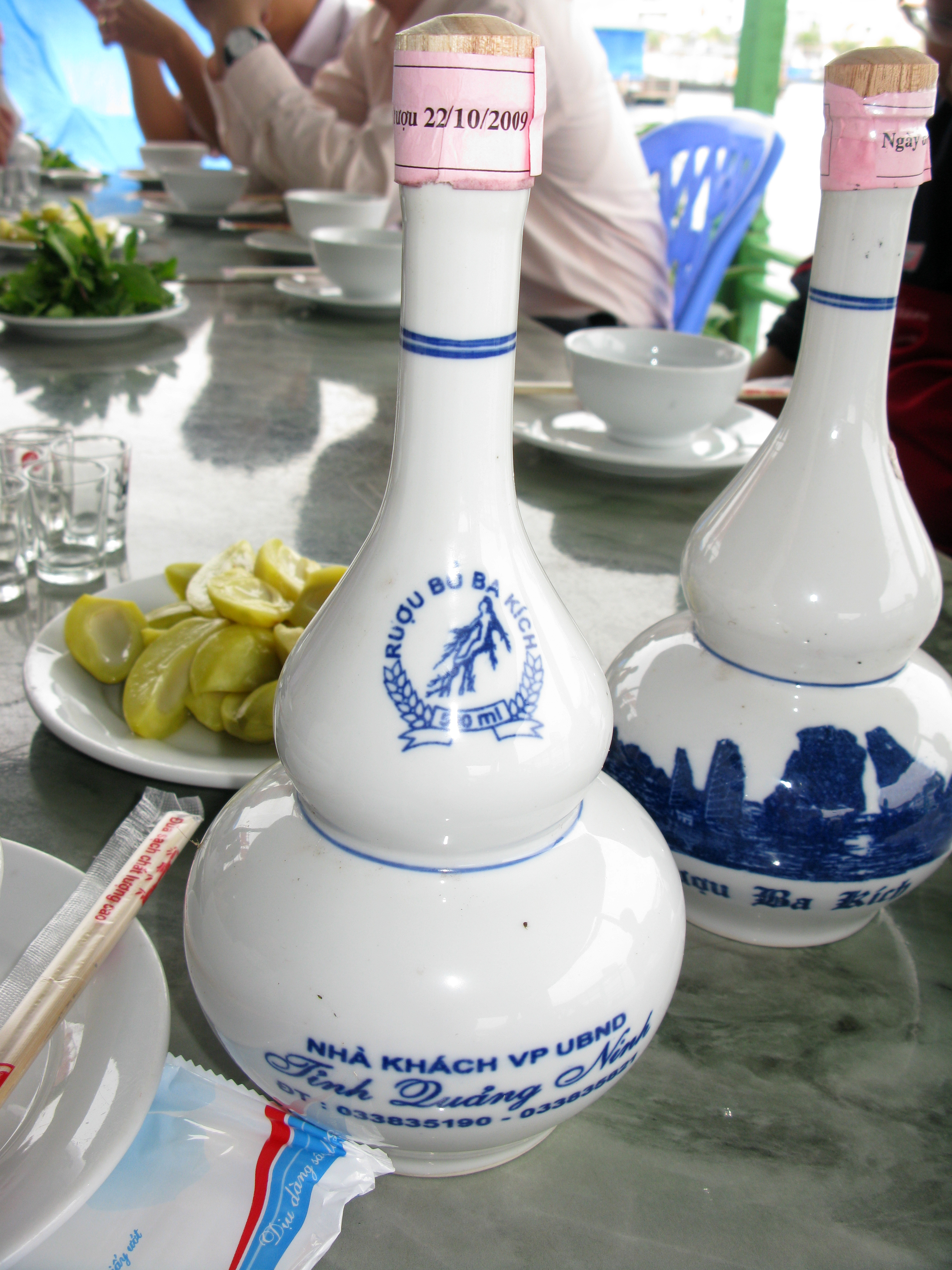 Bottles of liquor with morinda officinalis, or Indian Mulberry.